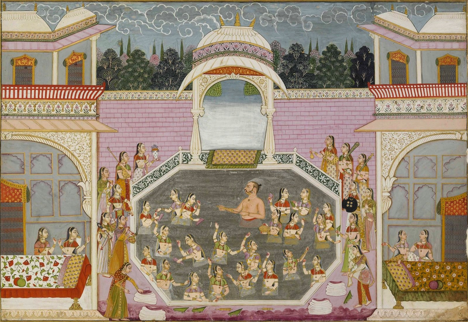 Maharaja Bakhat Singh rejoices during Holi. Attributed here to 'Artist 3', Nagaur c. 1748–50; 44.1 x 65.1 cm.Mehrangarh Museum Trust